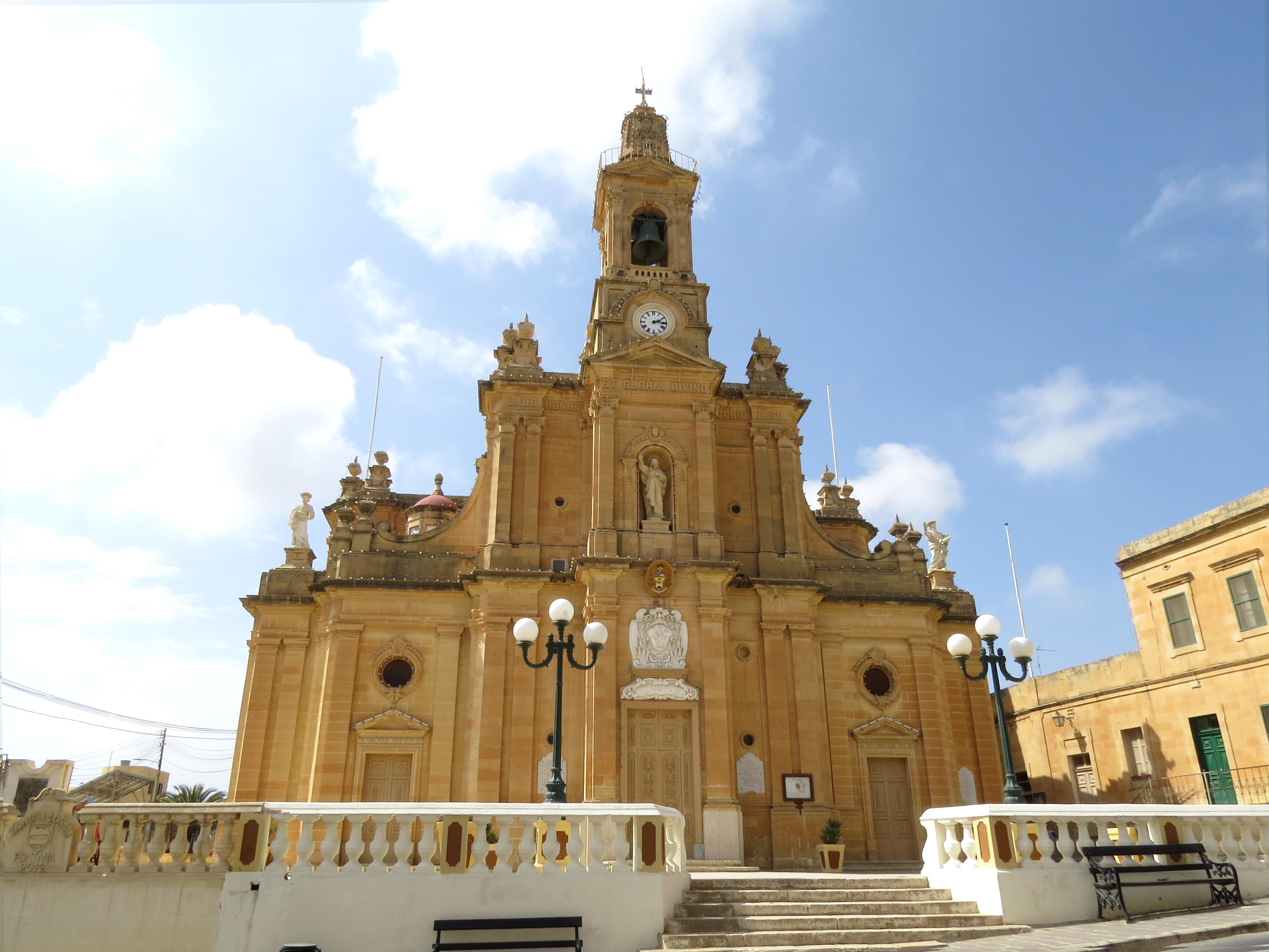 Parish Church of the Sacred Heart of Jesus This media is about Maltese cultural property with inventory number 00942.